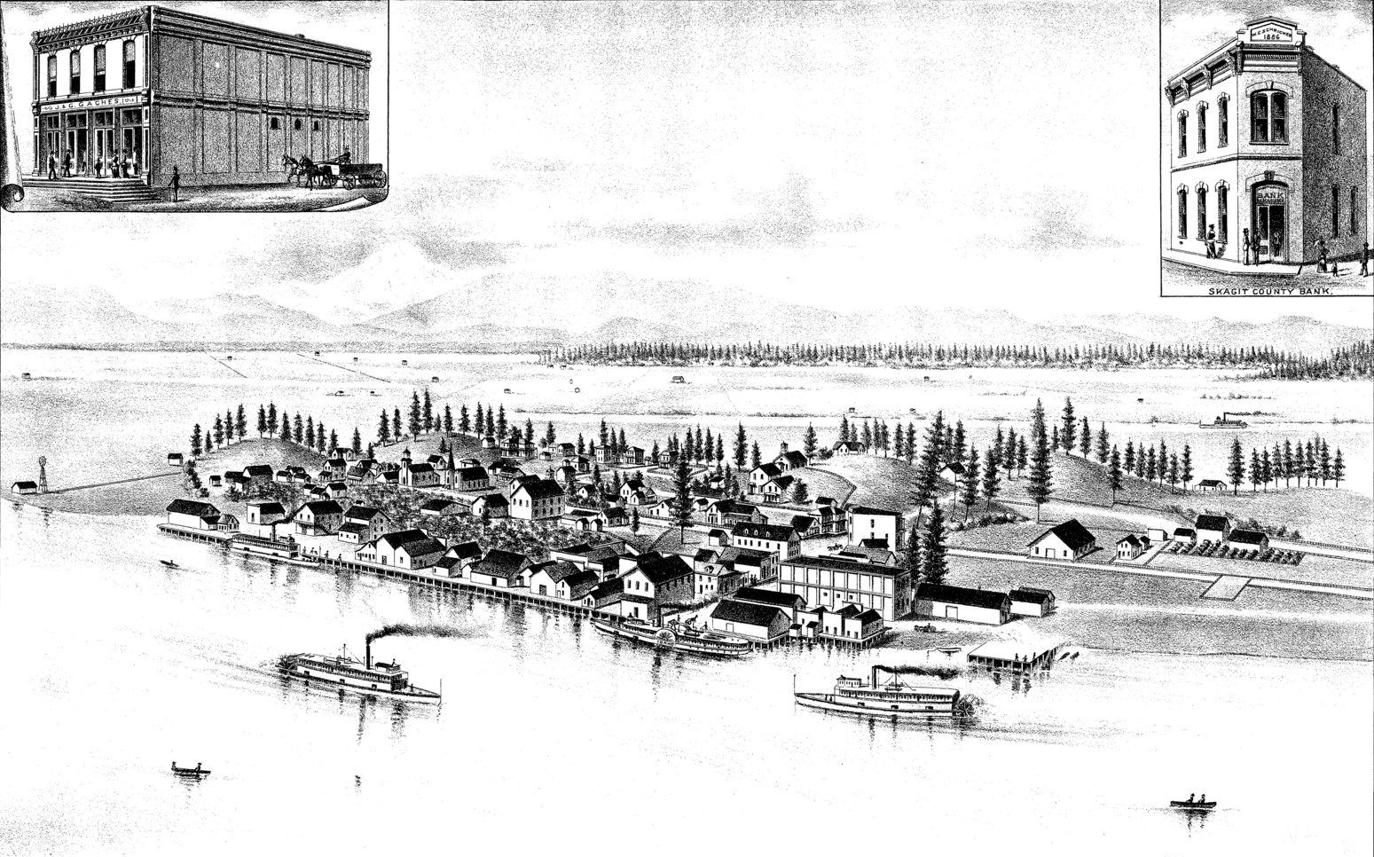 A view of La Conner, circa 1889, shortly before Washington became a state. Original caption: “ La Conner, Washington Territory ”